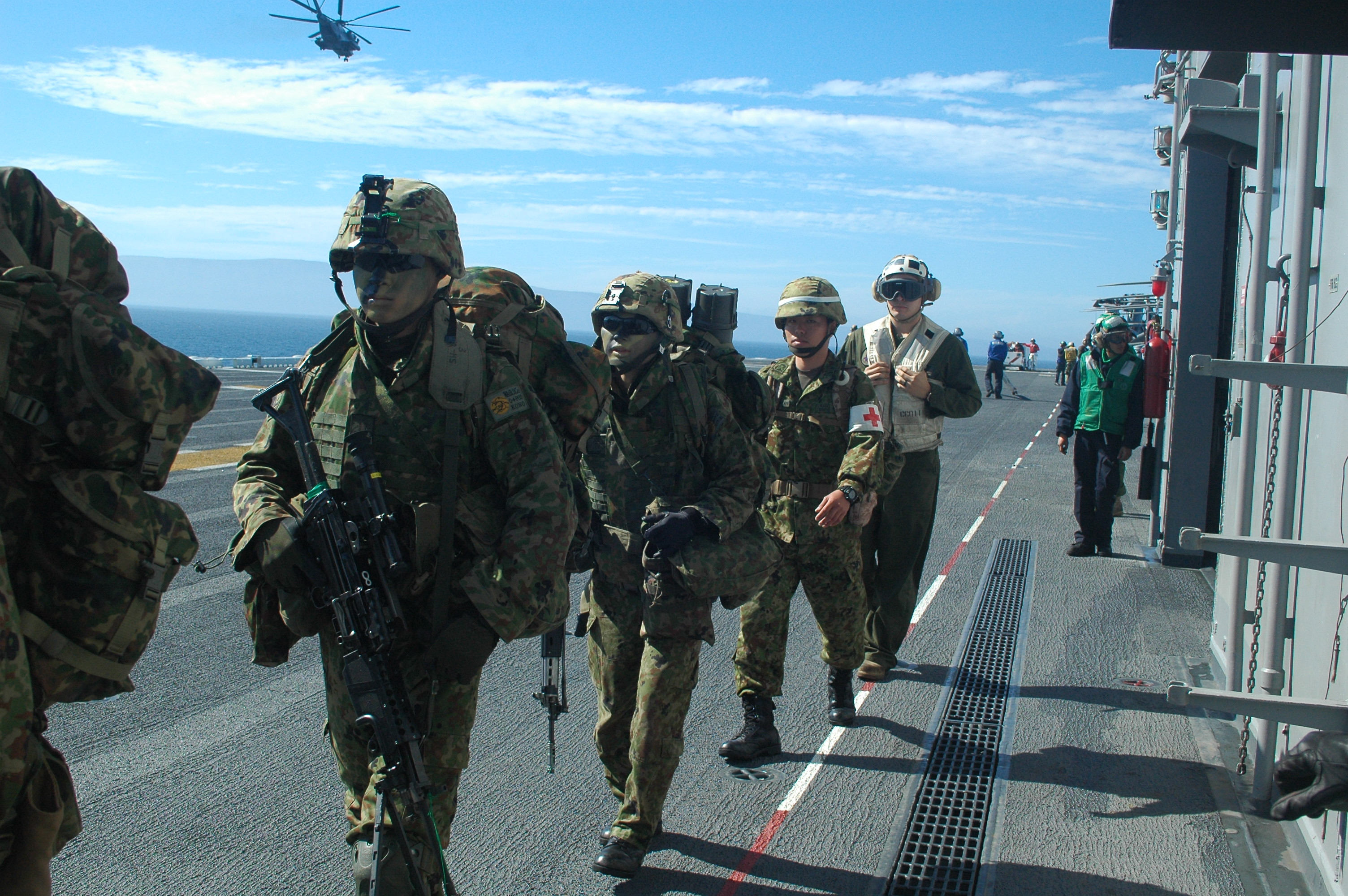 SAN CLEMENTE ISLAND, Calif. (Feb. 10, 2012) Members from the Japan Ground Self-Defense Force file along the flight line for their air assault aboard the amphibious assault ship USS Peleliu (LHA 5) during exercise Iron Fist 2012. This bilateral training exercise between U.S. Marines and the Japan Ground Self-Defense Force is designed to increase interoperability and amphibious capabilities throughout the U.S. 3rd and 7th Fleet area of responsibility. (U.S. Navy photo by Chief Mass Communication Specialist Jeremy L. Wood/Released)